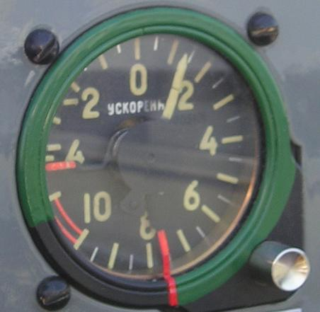 Aircraft accelerometer (G-meter)